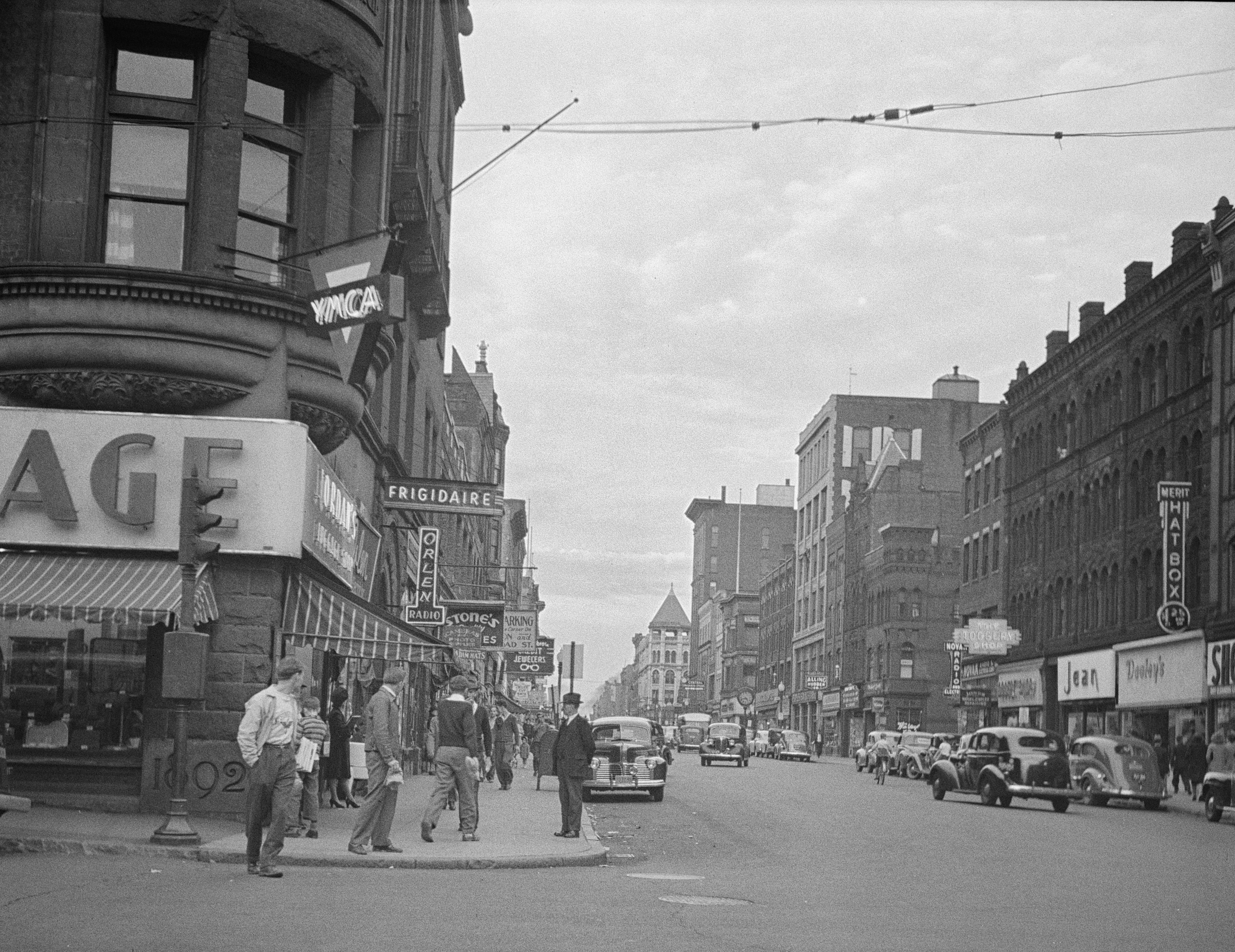 Looking down High Street from the corner of High and Appleton in October 1941, the YMCA building where volleyball was played by a team led by inventor William G. Morgan is in the foreground. In the distance Delaney's Marble Hall by James A. Clough may be seen.